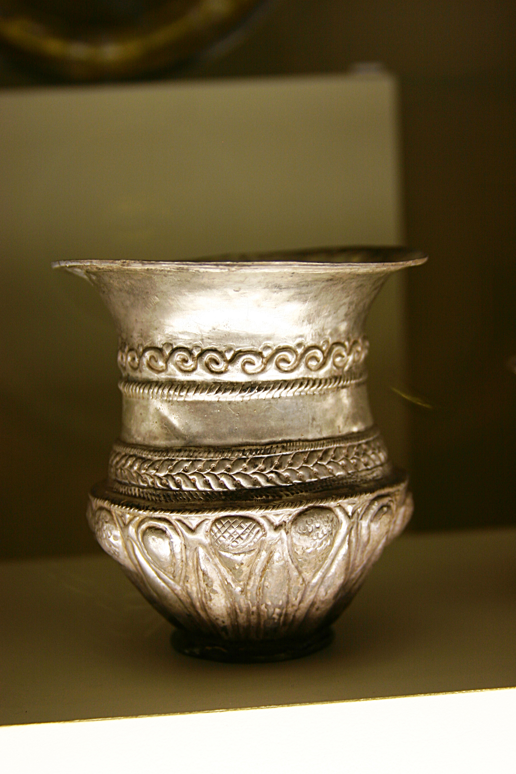 Museu d'Arqueologia de Catalunya